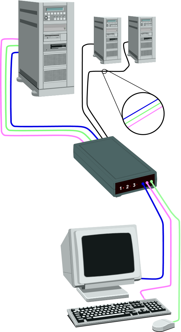 Monitor, mouse, keyboard, towers and switch items are modified from vector clipart files which are in the public domain.